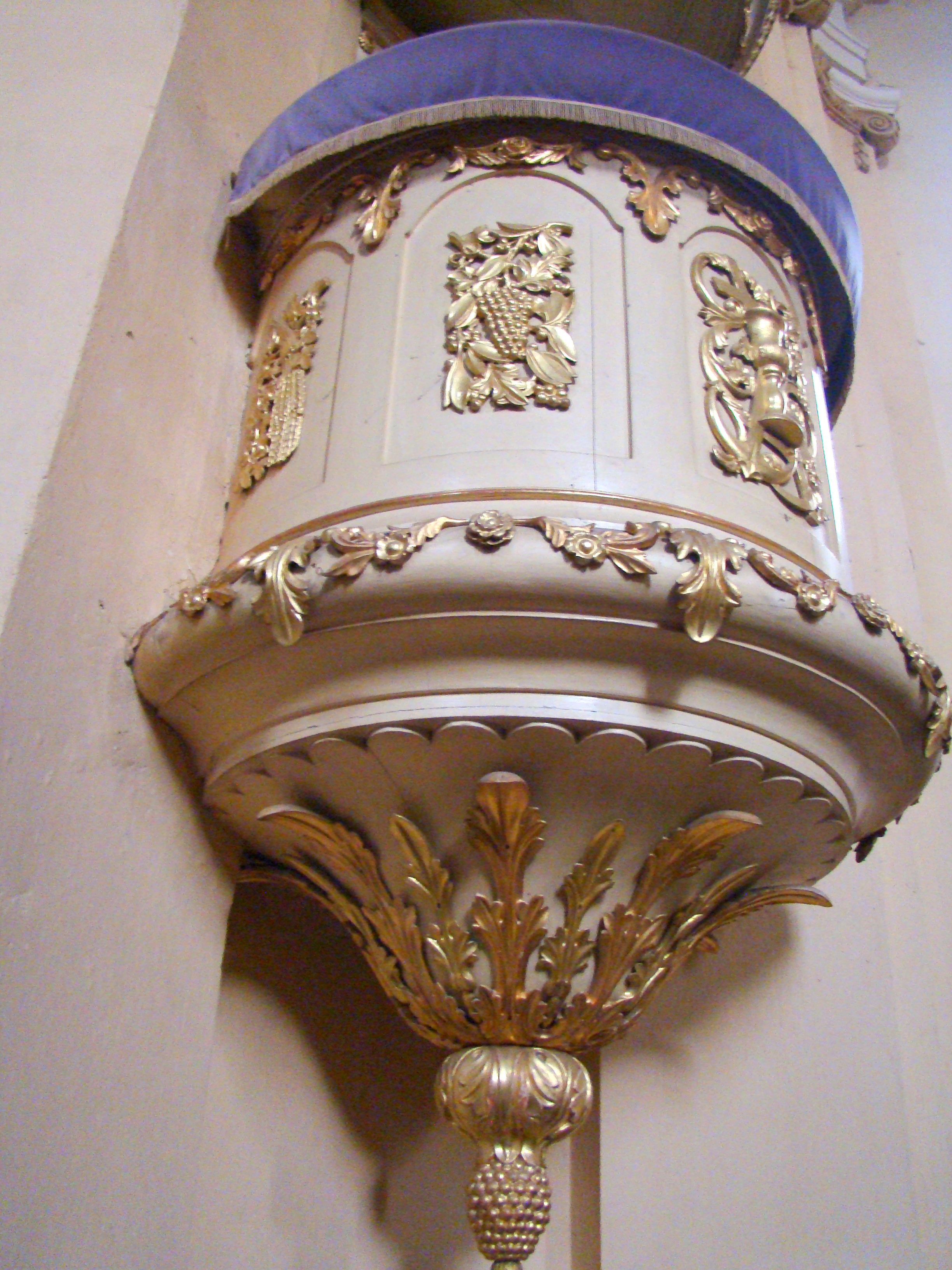 Lutheran church in Șaeș, Mureș county, Romania